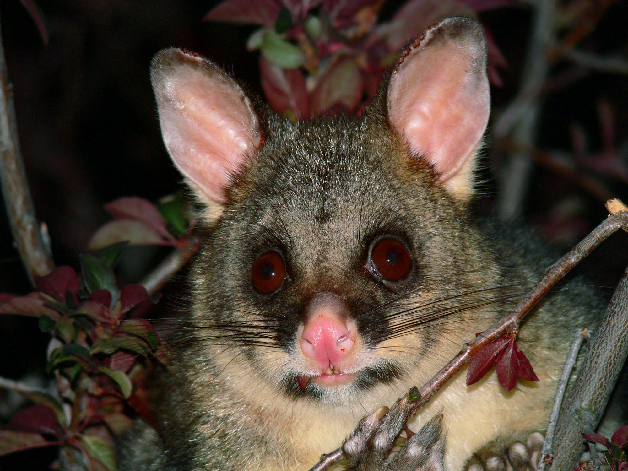 The common Brush tailed possum Trichosurus vulpecula